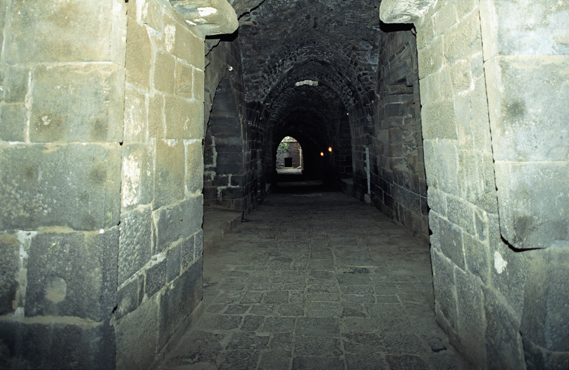 Syria, Roman theater in Bosra